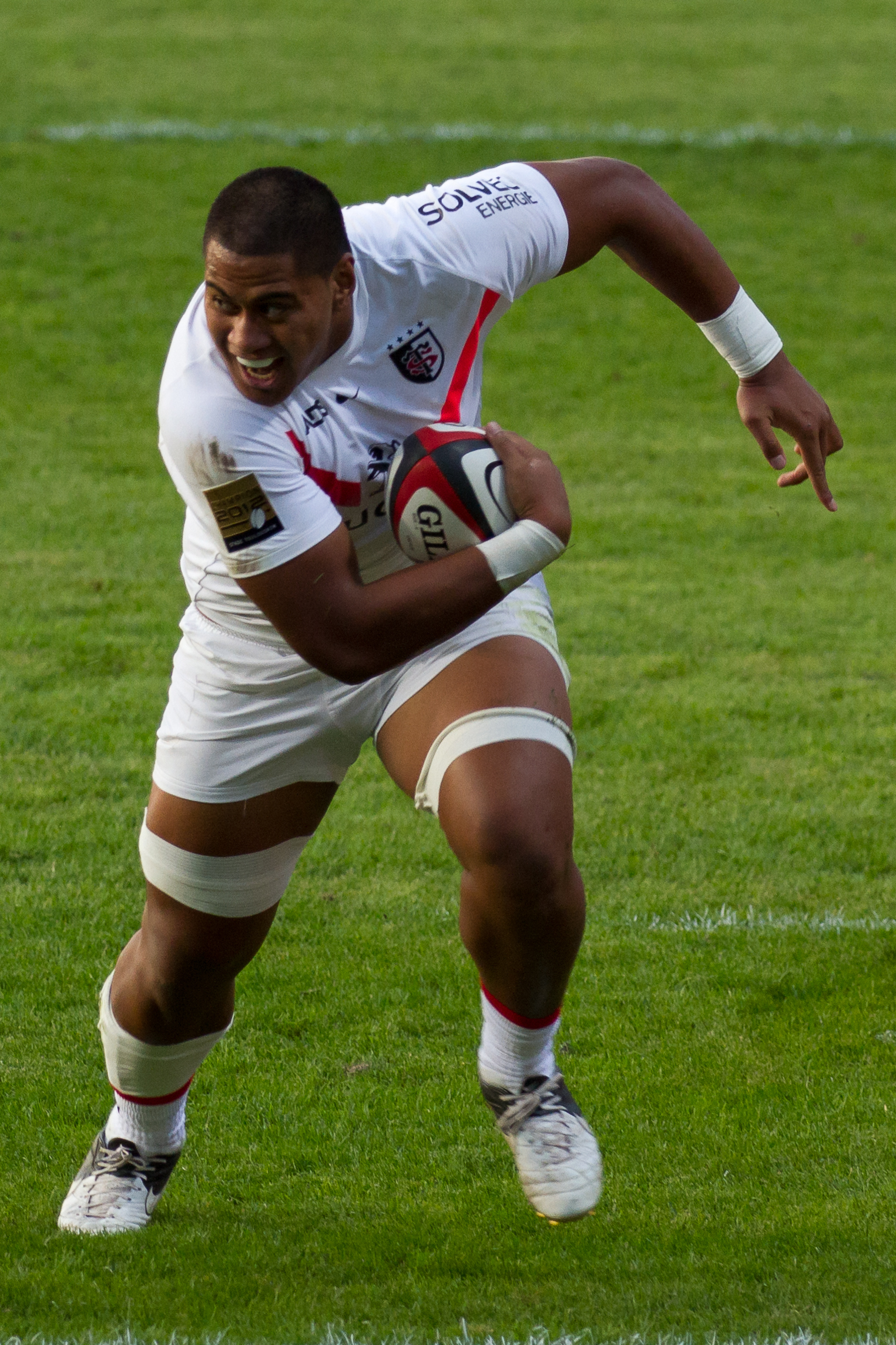 Edwin Maka 1 meter away from the goal line just before scoring a try against Agen.